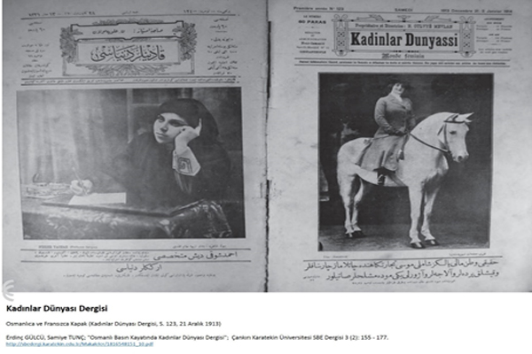 "Kadınlar Dünyası" or ""Women's World", Ottoman women's review, published between 1913 and 1921, first as a daily, later as a weekly, in Turkish language.